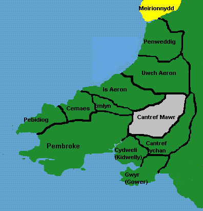 Map of Deheubarth c. 1160 Rhion Pritchard - own work, produced using MS Paint 5/8/2006